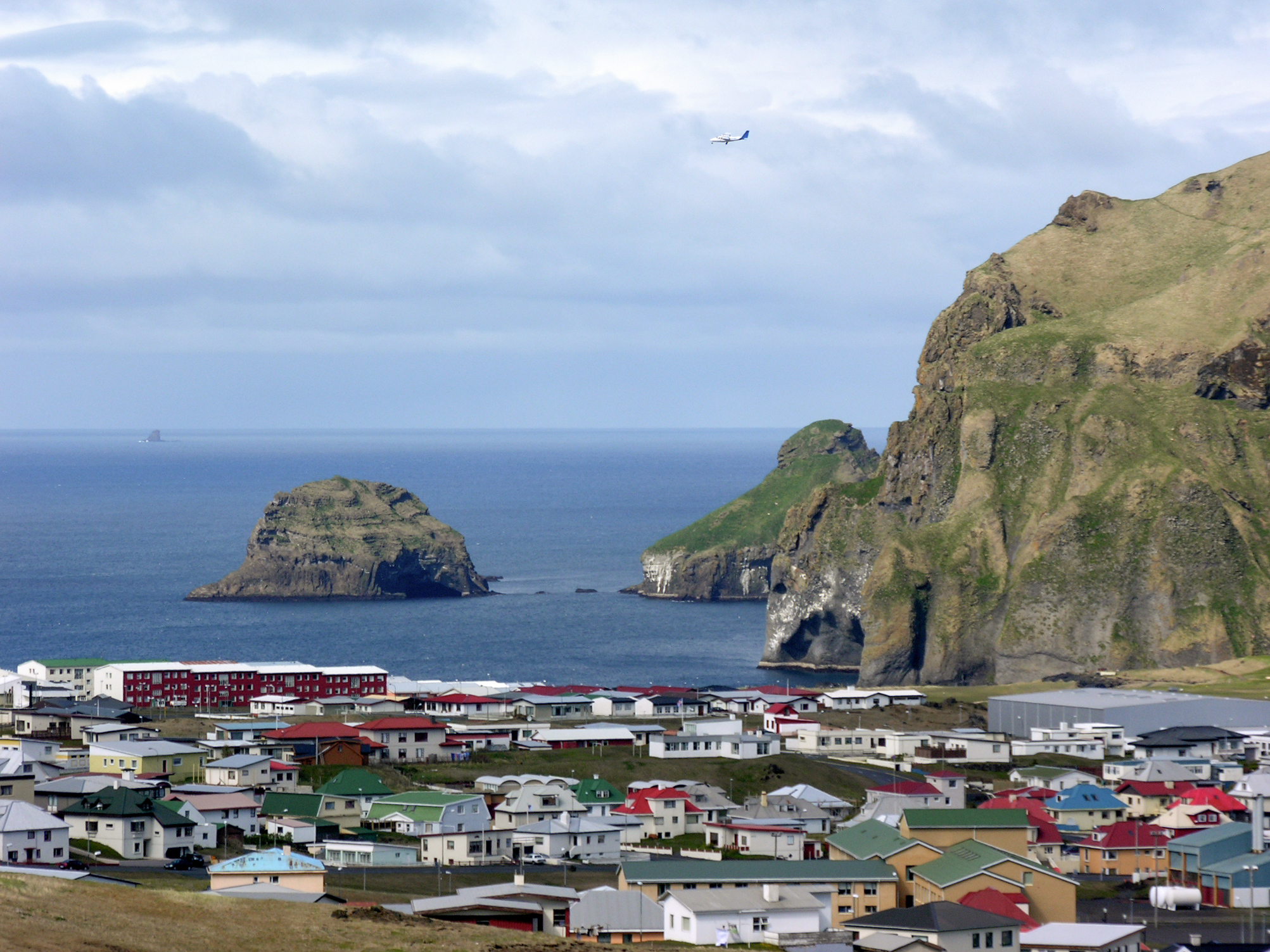 Iceland, Heimaey; the shuttle flight from Bakki airport on short final